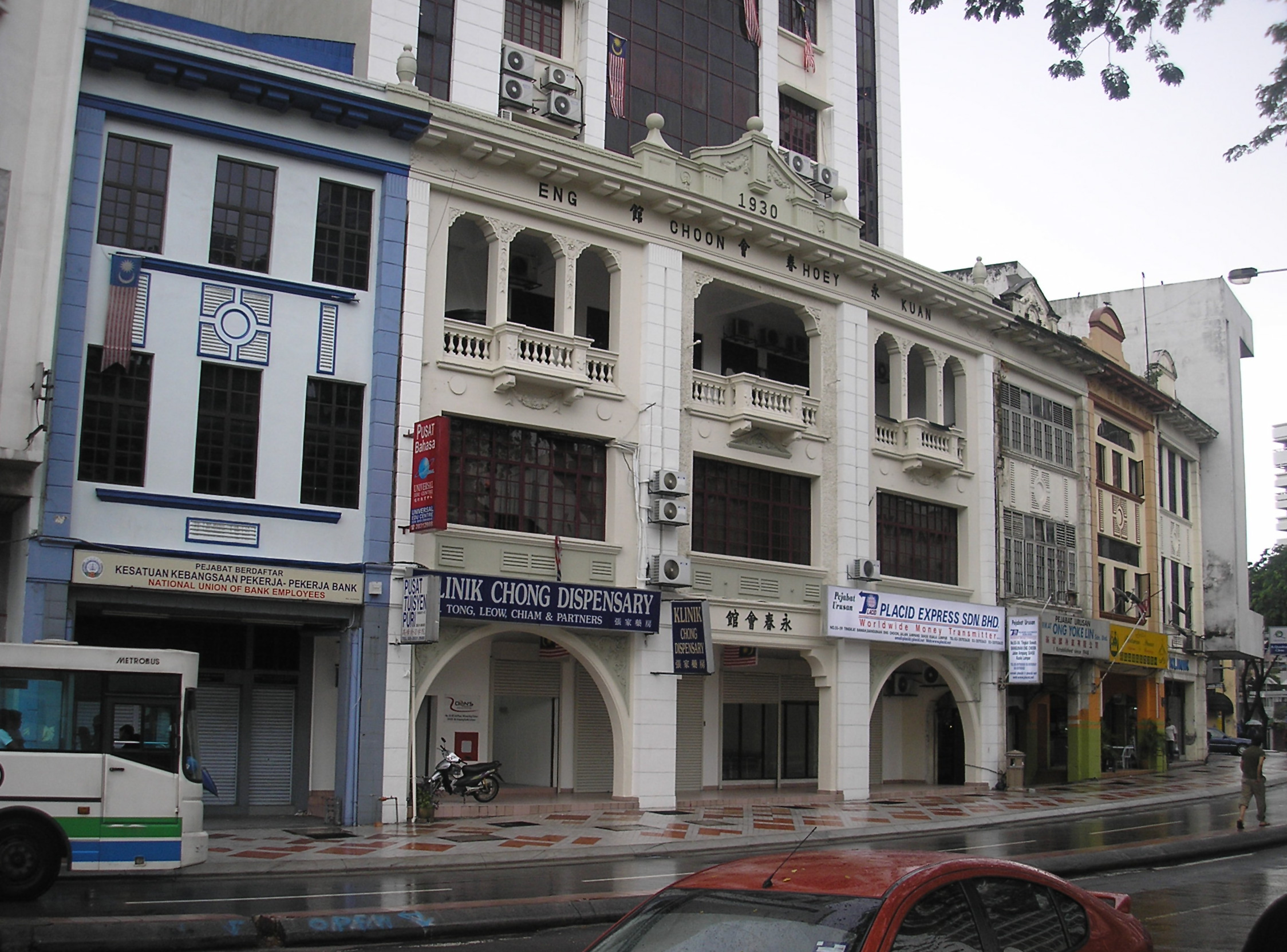 Eng Choon Assembly Hall (built 1930), alongside four other similarly built three storey pre-war buildings (one to the left, and three to the right) at Jalan Ampang (Ampang Road), between Jalan Munshi Abdullah (Munshi Abdullah Road) and Jalan Melaka (previously Malacca Street), in the Golden Triangle, Kuala Lumpur, Malaysia, as seen towards the southeast. Of the five buildings pictured, only one (third from the right) retains most of its original window designs; the inner structure of Eng Choon Assembly Hall itself was rebuilt to support a taller building within. The lack of clear guidelines for architectural conservation in the city means unregulated alterations of lesser known pre-war buildings are common.